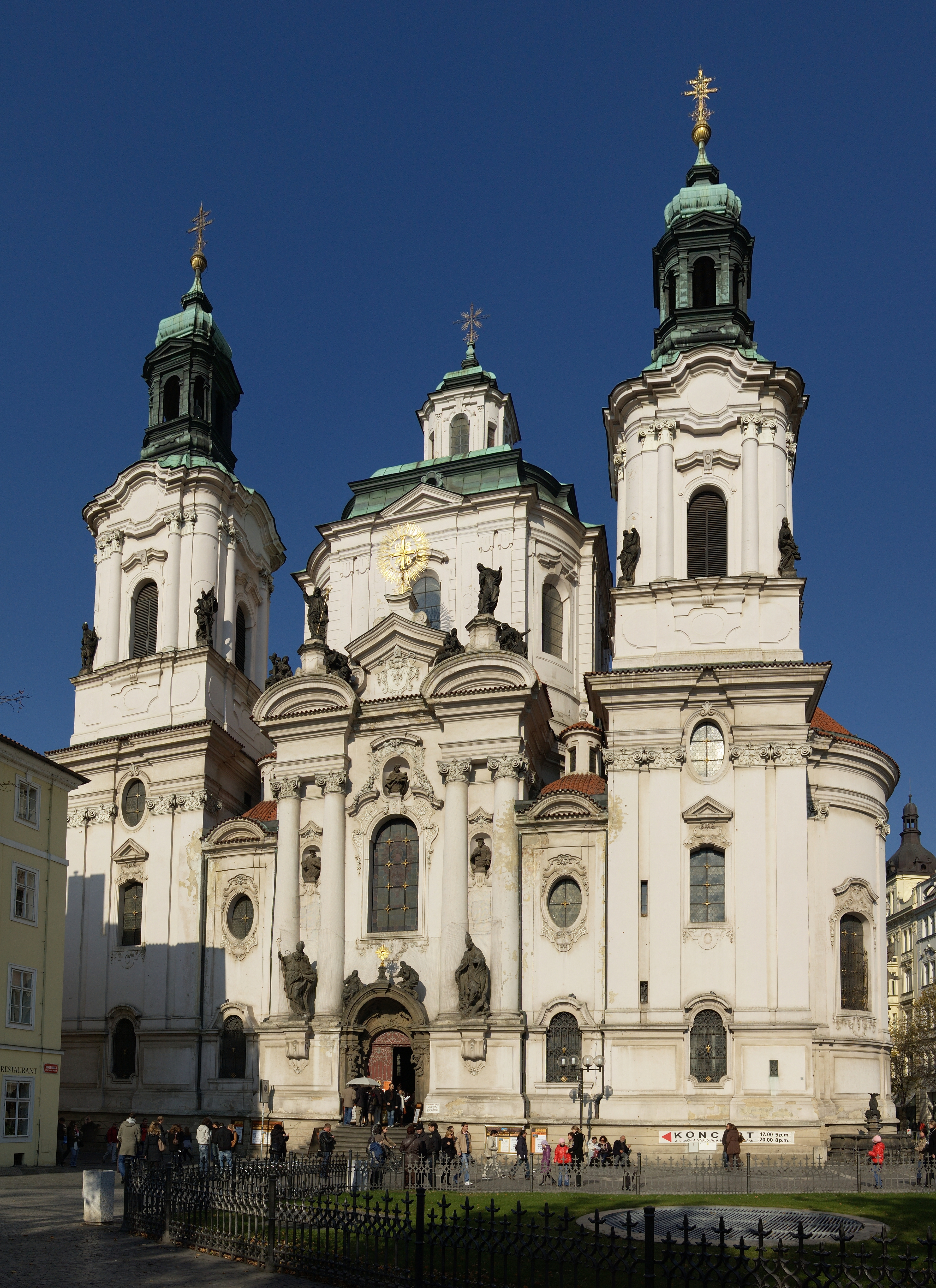 Church of St Nicholas of Old Town in Prague. This image was created with Hugin.